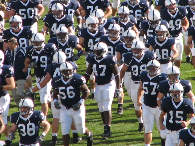 The Penn State Nittany Lions American football team takes the field